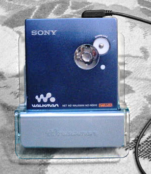 Sony MiniDisc NetMD Walkman player